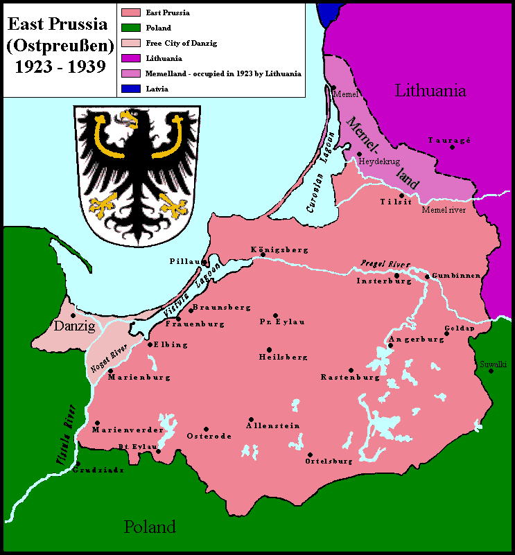 Germany's province of East Prussia from 1923 to 1939, with Memelland occupied by Lithuania since 1923